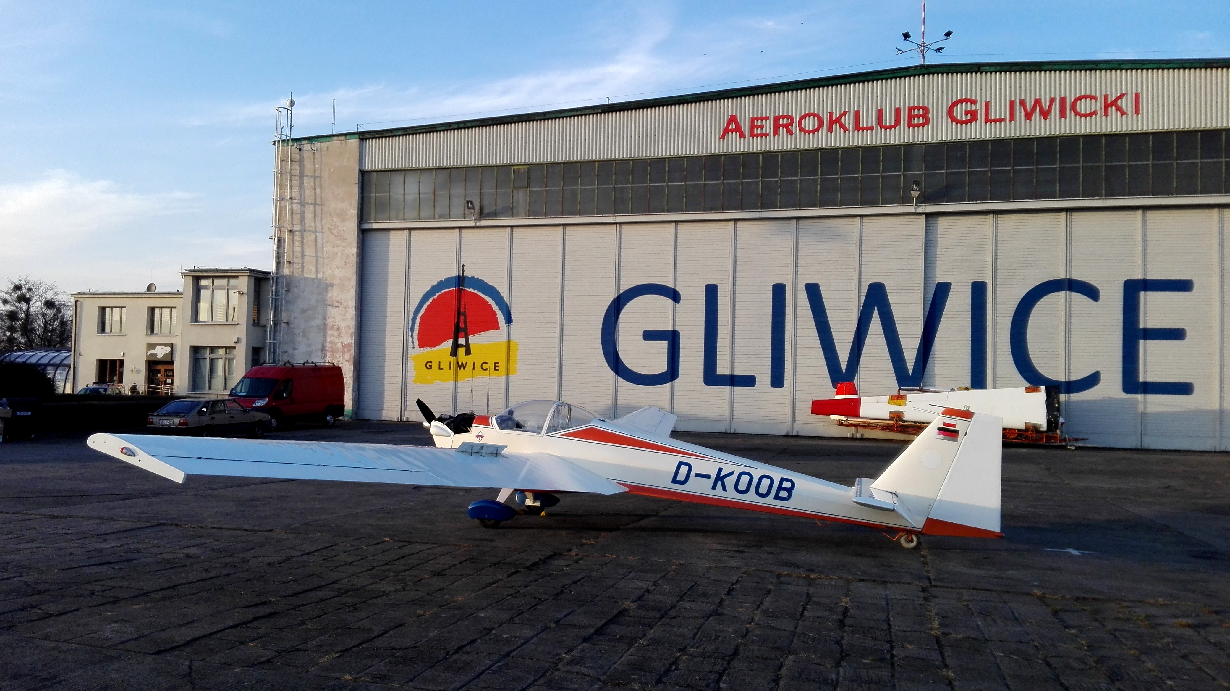 Scheibe SC-25C „Falke”